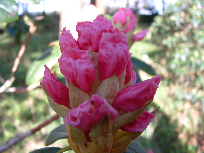 Flowers in Rogaland Arboret